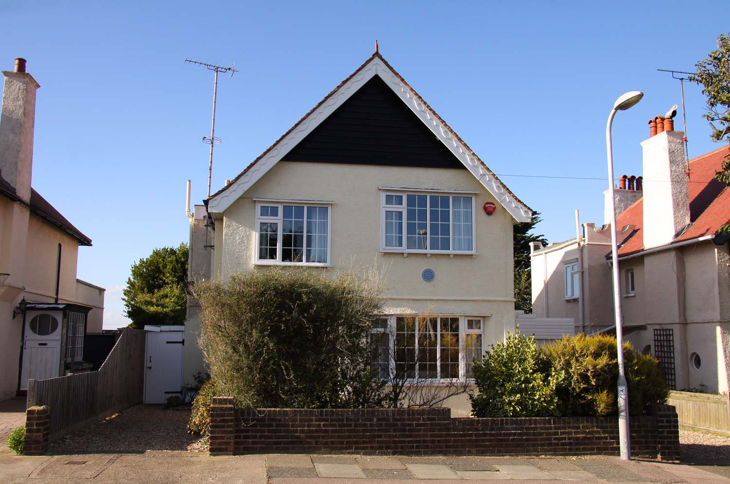 Blue plaque house at 131 Percy Avenue, Kingsgate, Broadstairs. Frank Richards, the creator of Billy Bunter, lived here.